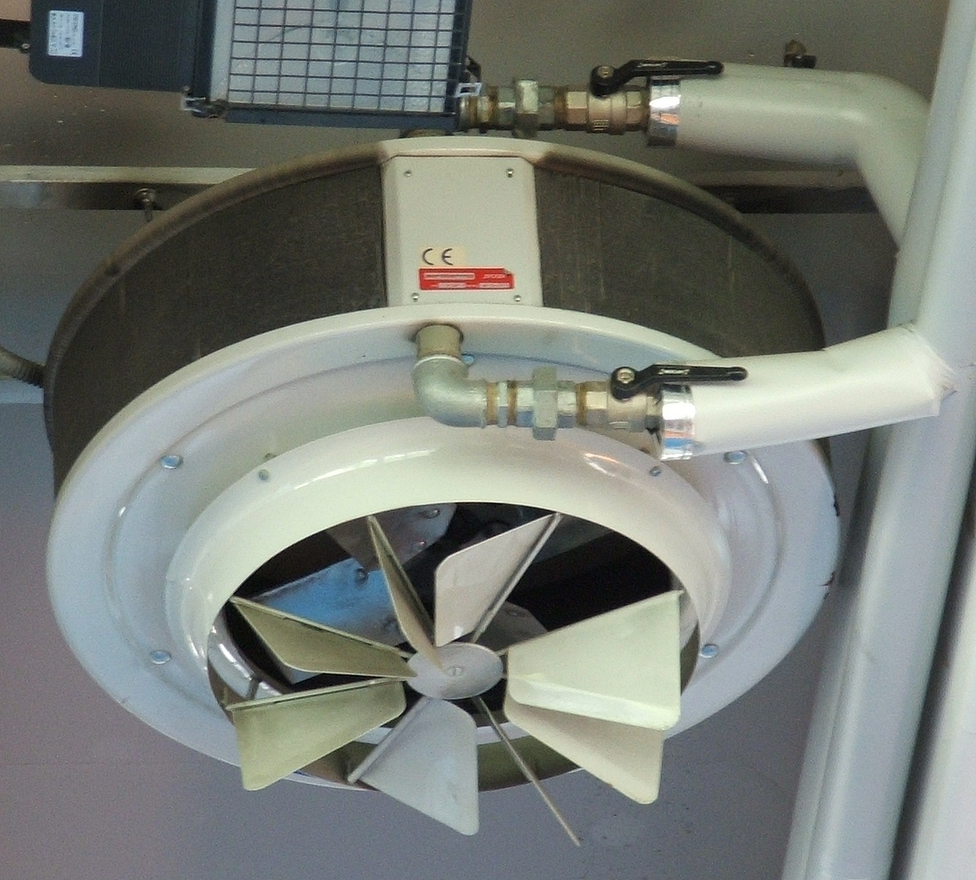 Heater unit